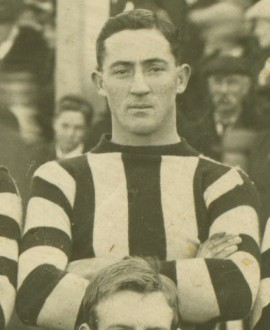 Photograph of Paddy Rowan in 1912